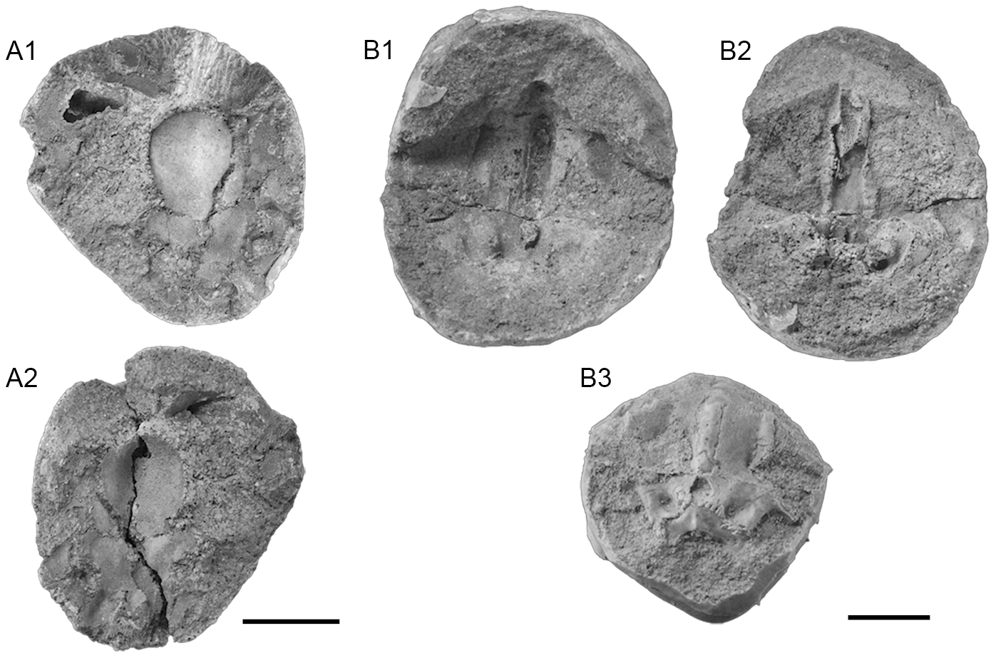 Photograph of the different nodules. A, part (A1) and counterpart (A2) of KUVP 152144. B, part (B1), counterpart (B2) and silicone cast of the part (B3) of KUVP 56340. Scale bar = 1 cm.